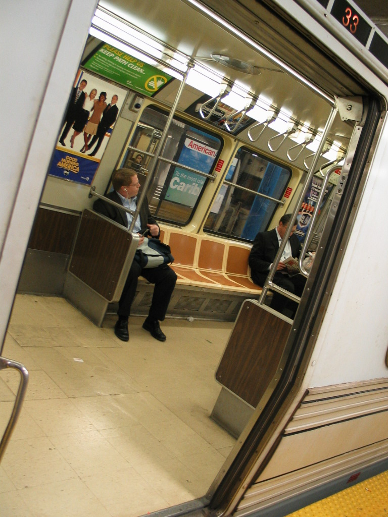 Entering Path train on 33rd street terminal in New York City.